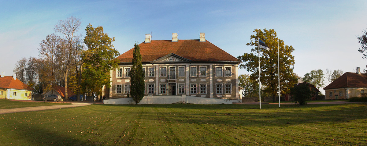 Maidla manour